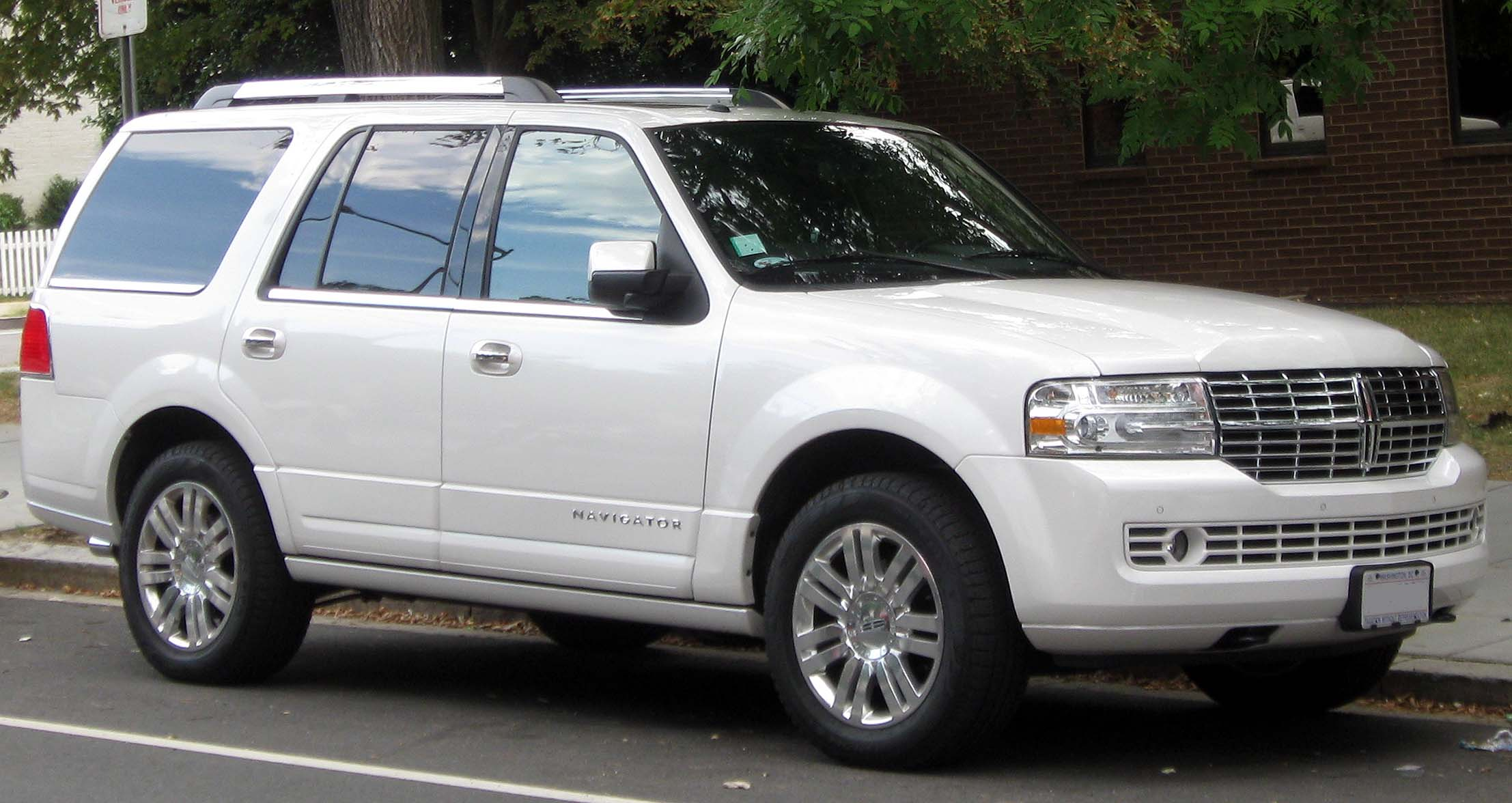 2007-2011 Lincoln Navigator photographed in Washington, D.C., USA.